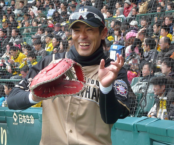 Atsunori Inaba, infielder of the Hokkaido Nippon-Ham Fighters, at Hanshin Koshien Stadium.